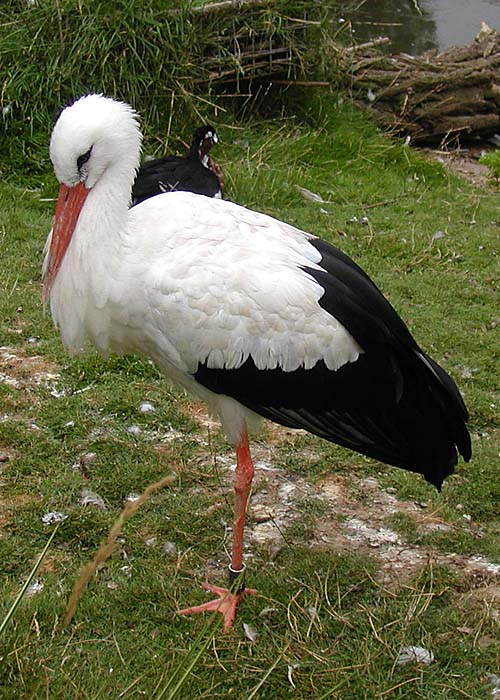 Stork at Bristol Zoo, Bristol, England. Photographed by Adrian Pingstone in August 2003 and released to the public domain.